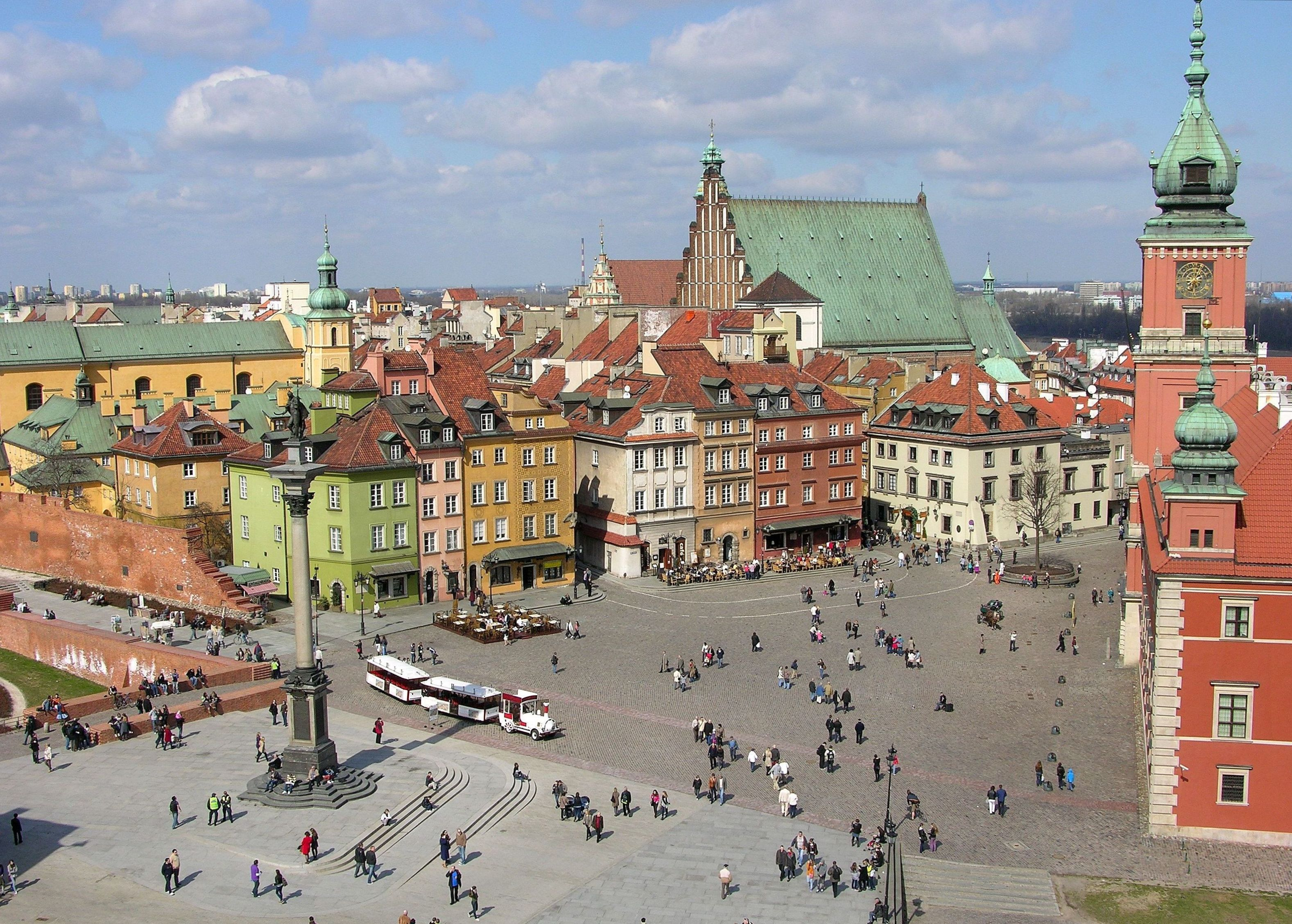 Castle Square in Warsaw viewed from St. Anne's church belfry